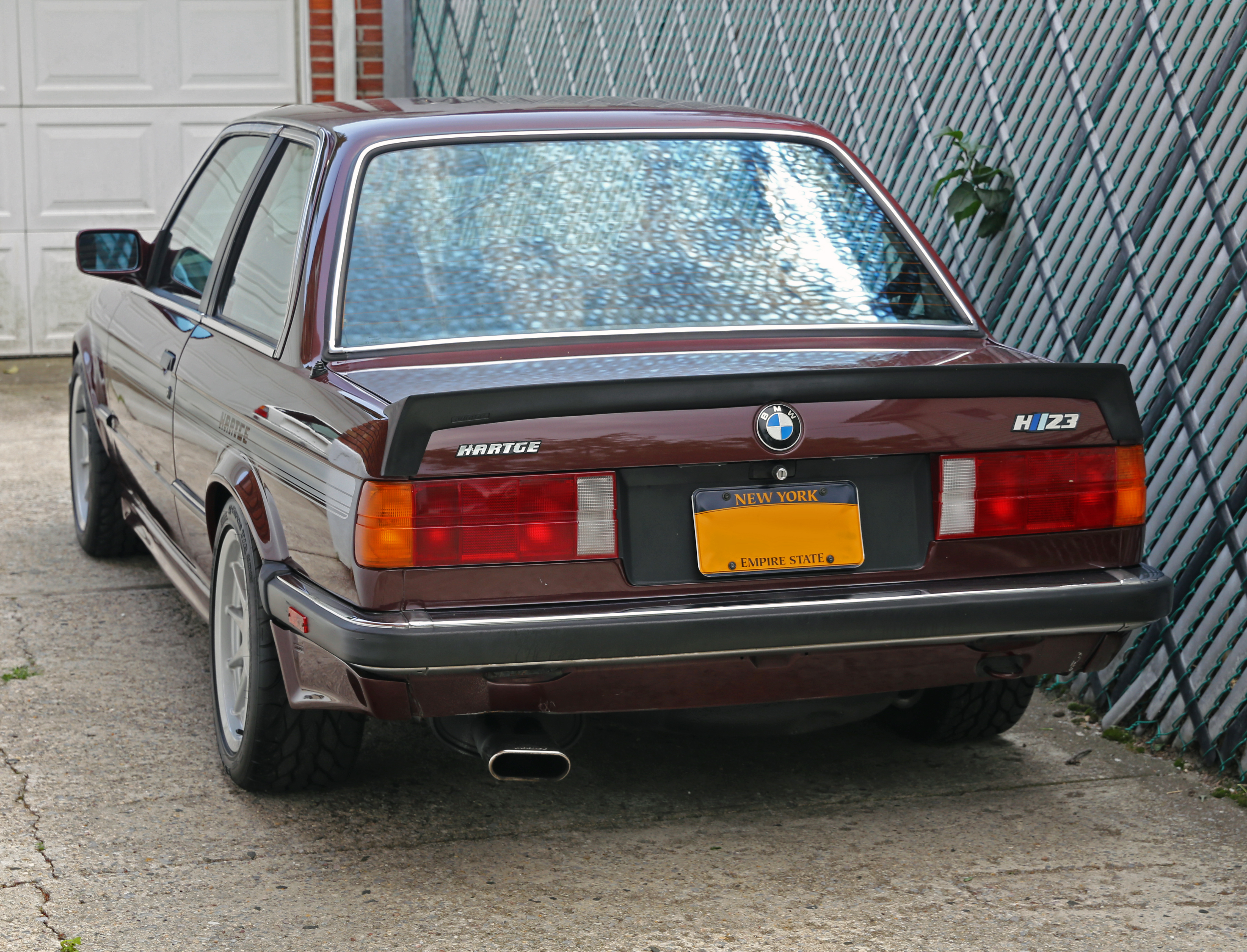 A 1983 Hartge H23, E30 BMW 3-series. Only 35 of these were built, of which five were brought in and federalized by Performance Motorsports in Florida - this is the only burgundy one of those. The side skirts and rims are not standard (though Hartge pieces), nor is the exhaust tip. The H23 has 170PS rather than the 143 of the standard BMW 323i.